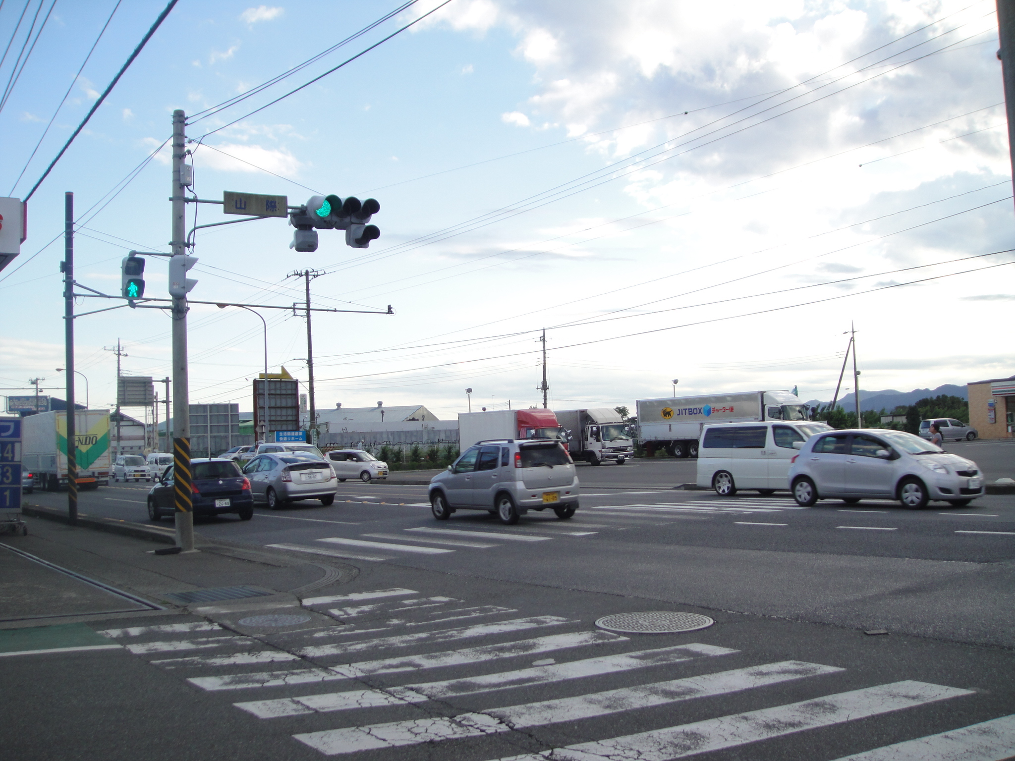 Japanese National Route129 in Atsugi, Kanagawa